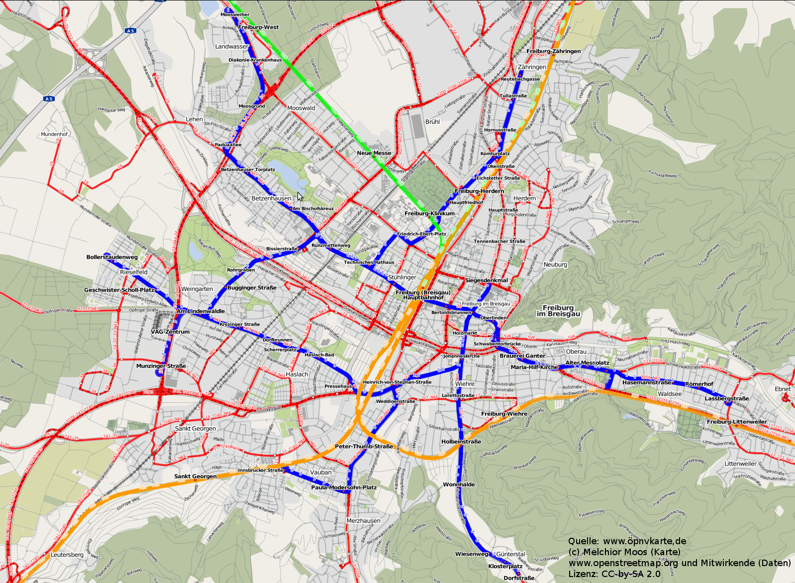 Public Traffic network in Freiburg (Breisgau), Germany, May 2010